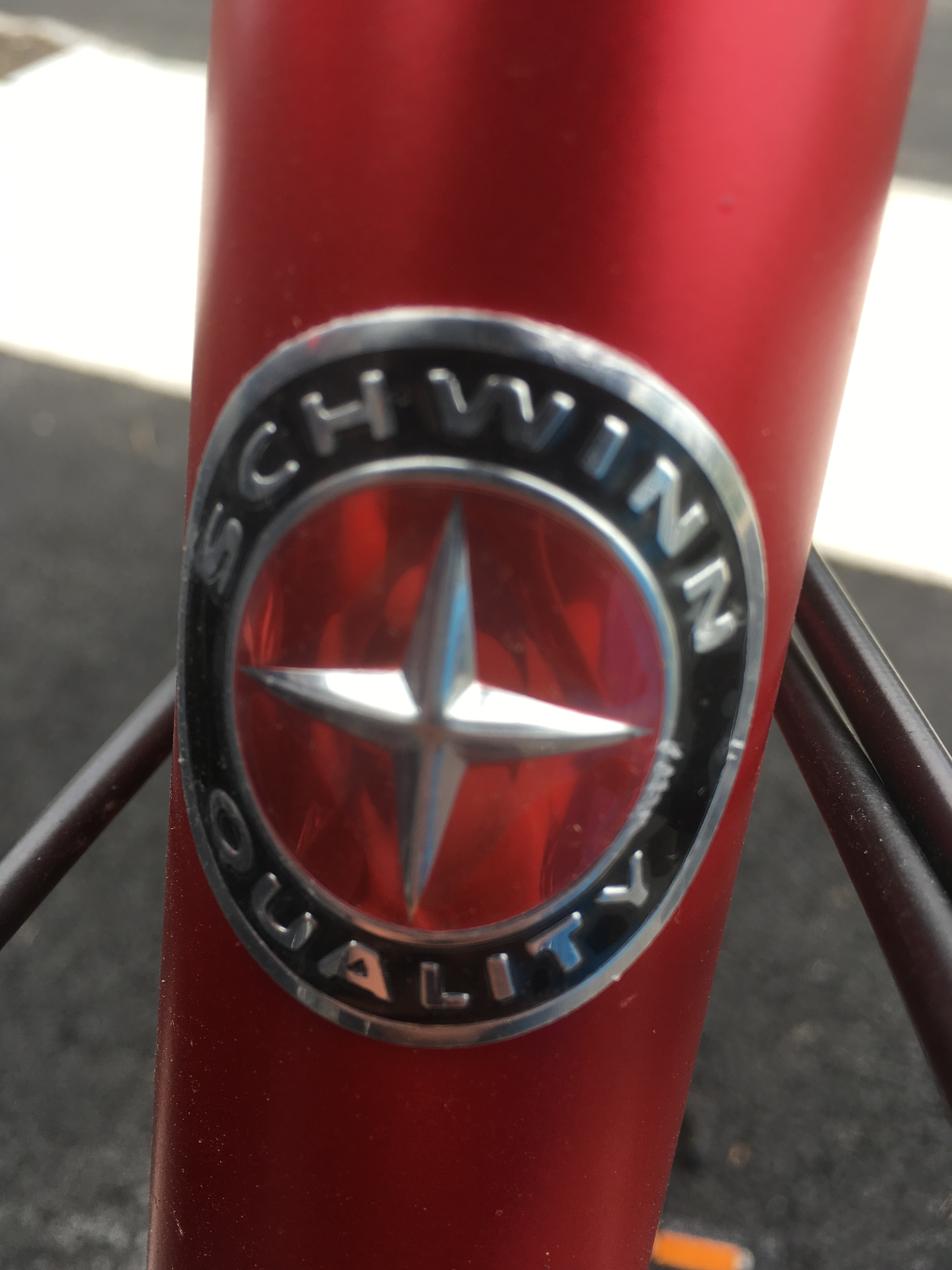 The head badge of a Schwinn GTX 3 bicycle. Taken in the driveway of my house.